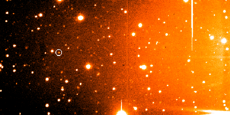 Caliban, moon of Uranus